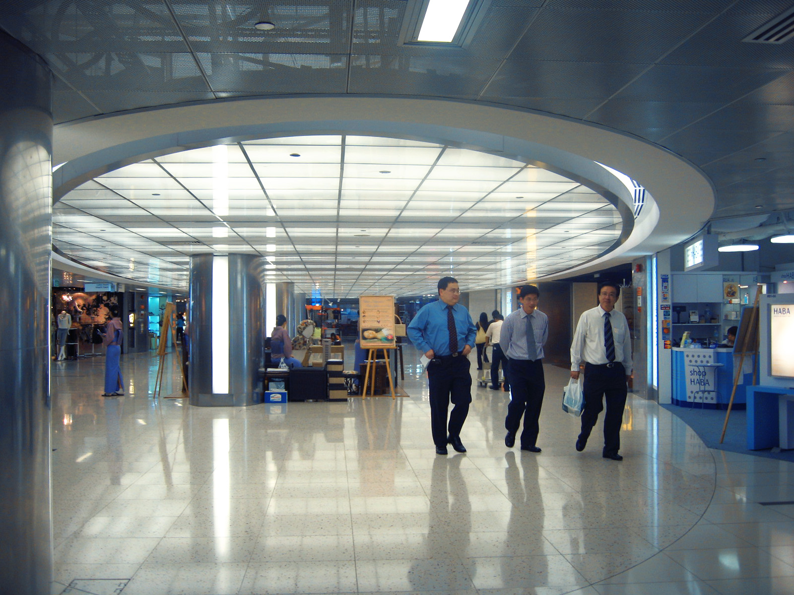 Raffles Xchange; Raffles Place MRT Station (SMRT) (enhanced from Terence's collection)